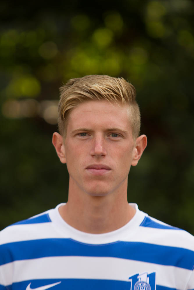 German football player Tobias Feisthammel, MSV Duisburg